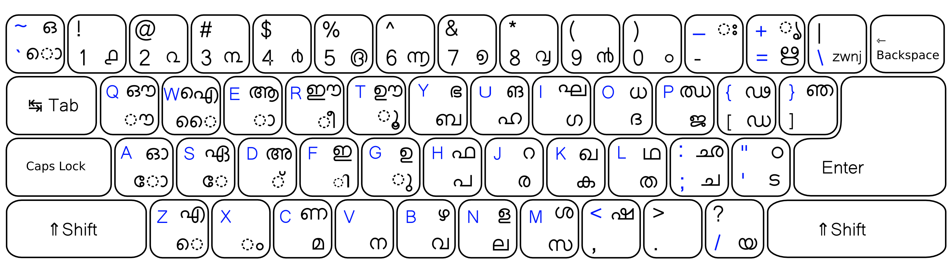 Incript keyboard layout for Malayalam.